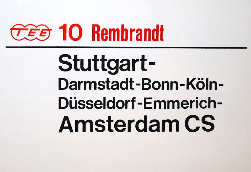 Route placard for the TEE Rembrandt, northbound direction, showing the itinerary followed from June 1980 until May 1983. This TEE train operated from 1967 to 1983 and ran through to Munich until 1980, when it was cut back to Stuttgart. This type of card, measuring 21cm x 30cm, was displayed inside each car of the train, in frames at both ends of the car. Similar, but larger, route cards were displayed on the outside of each car. (The photographer obtained the route card from the DB offices in summer 1983, through a written request.)